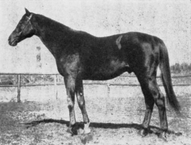 Diolite